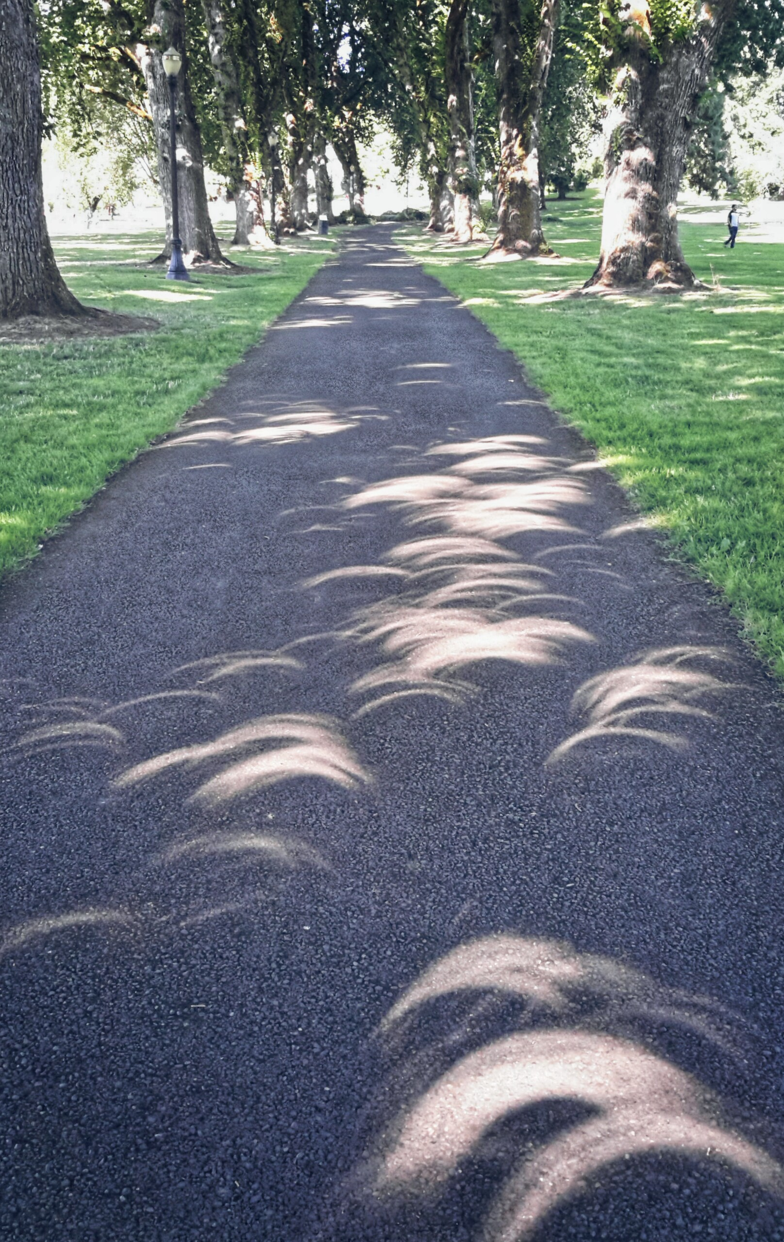 The dappled sunlight under the trees was very strange before and after totality.